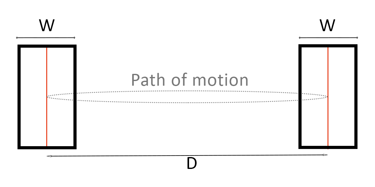 Schematic of the original Fitts' Law task. The graphic has a English caption.